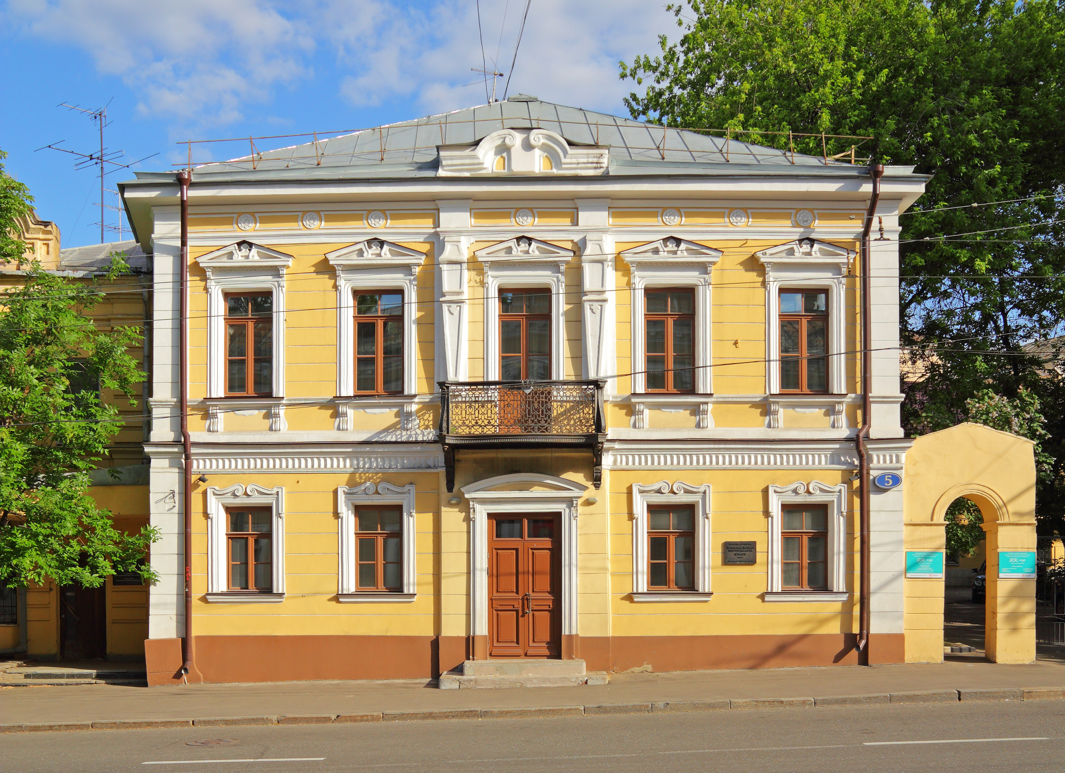 Moscow, Russia. Prechistenka Street. City estate.